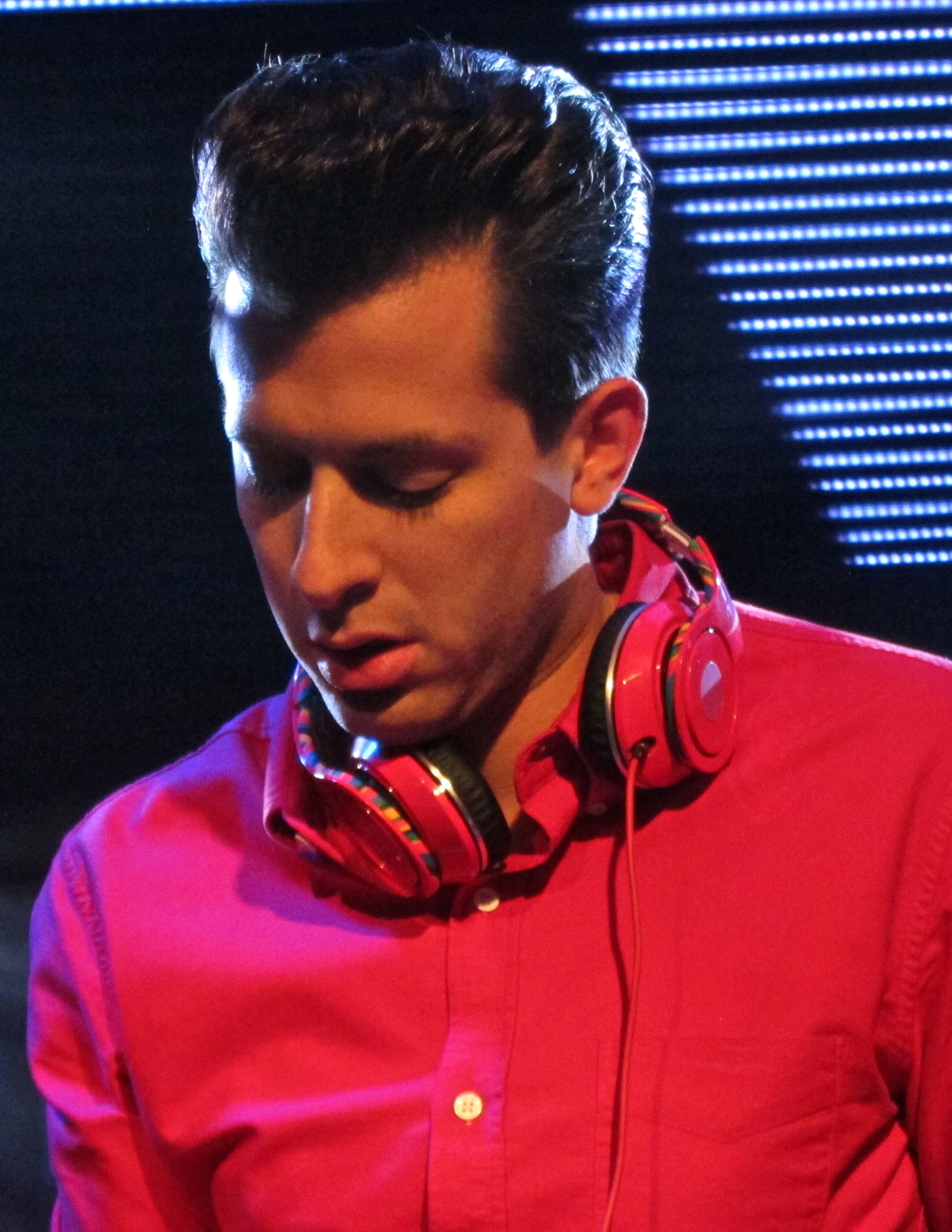 Mark Ronson on Coke & Olympics, 2012